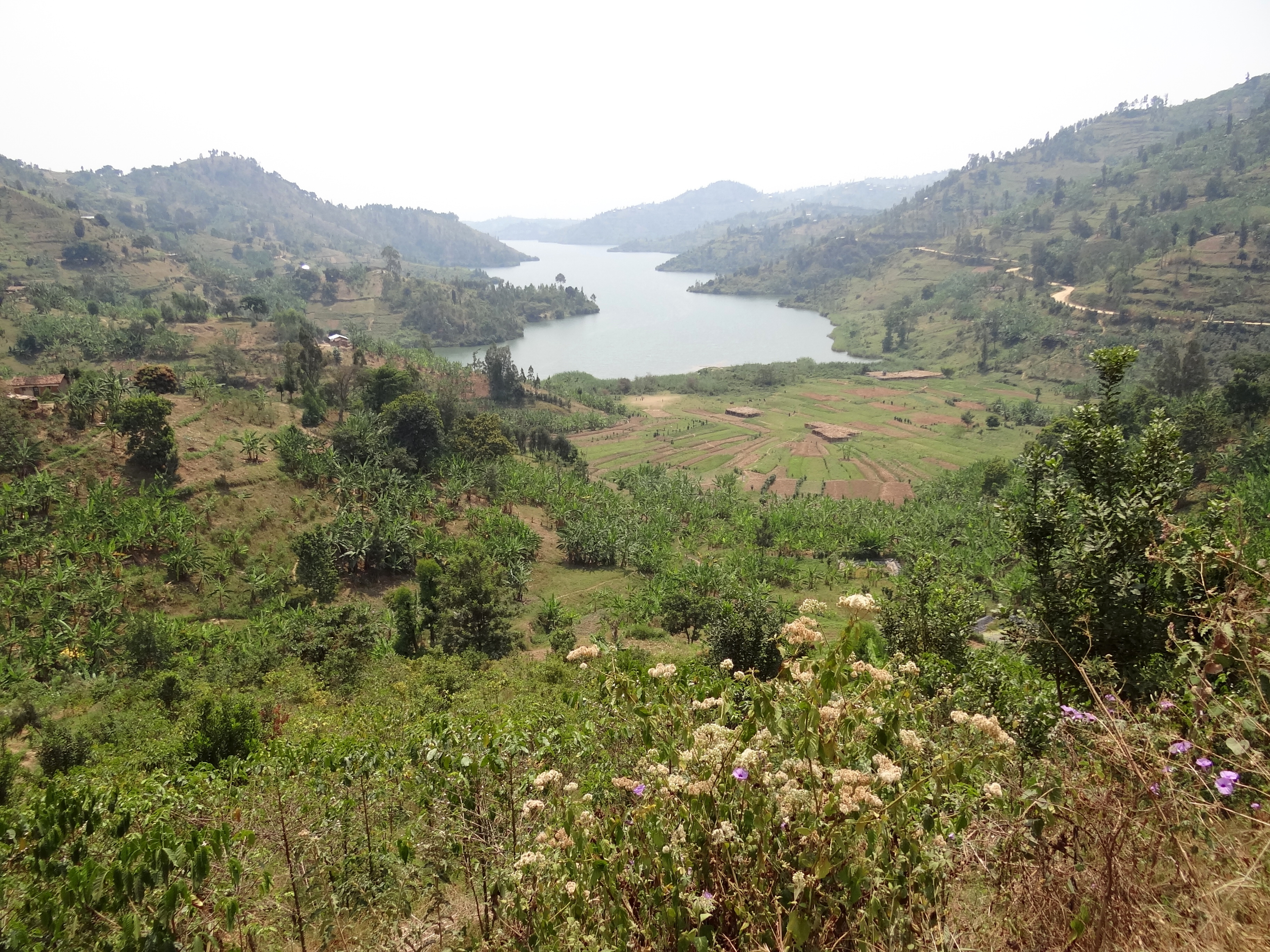 Scenery in Hills above Lake Kivu - Near Karongi-Kibuye - Western Rwanda